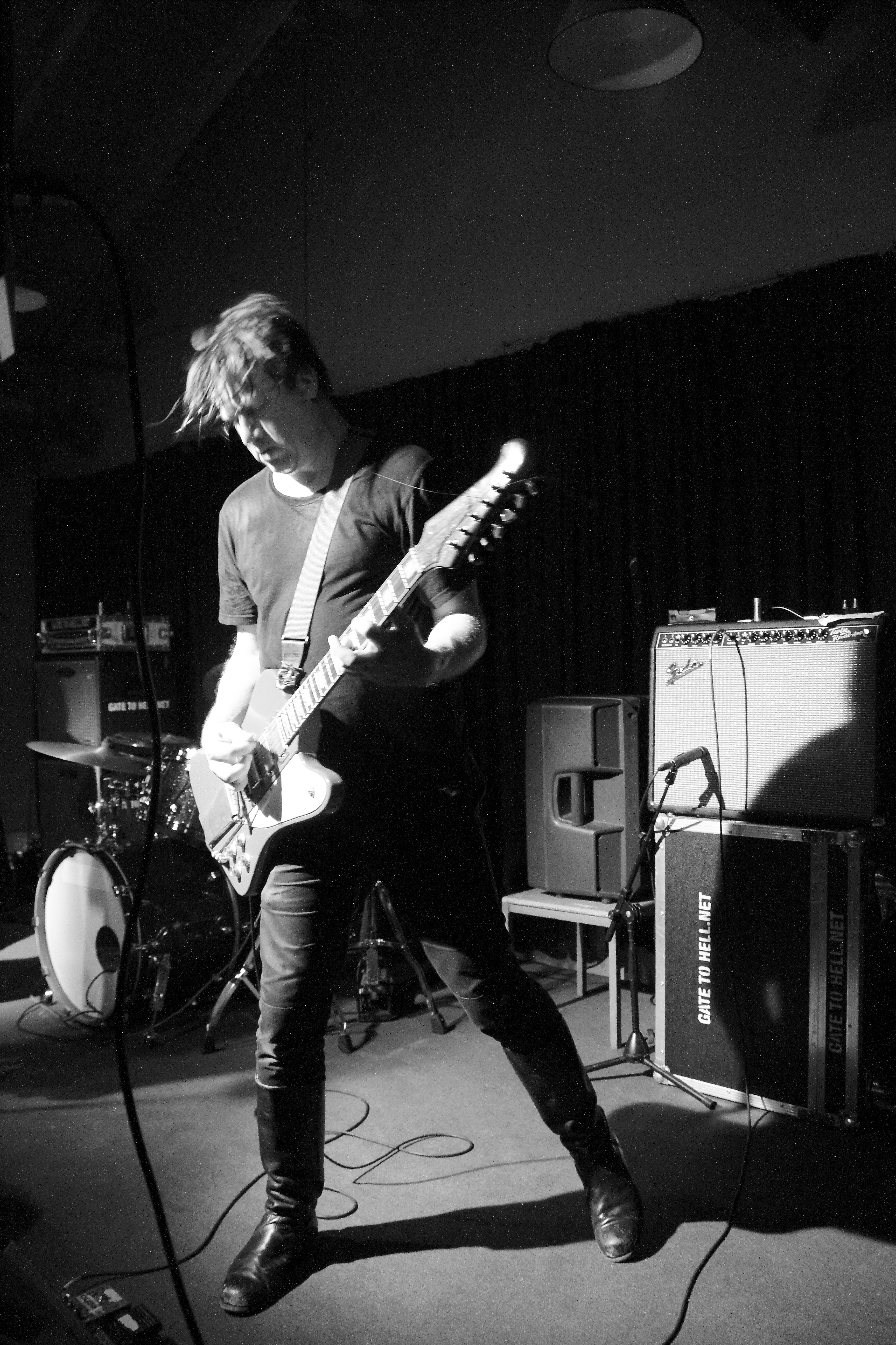 Lydia Lunch Retrovirus are Lydia Lunch (voc), Weasel Walter (g), Tim Dahl (b) and Bob Bert (dr). Here in concert at Club W71, Weikersheim in 2017.